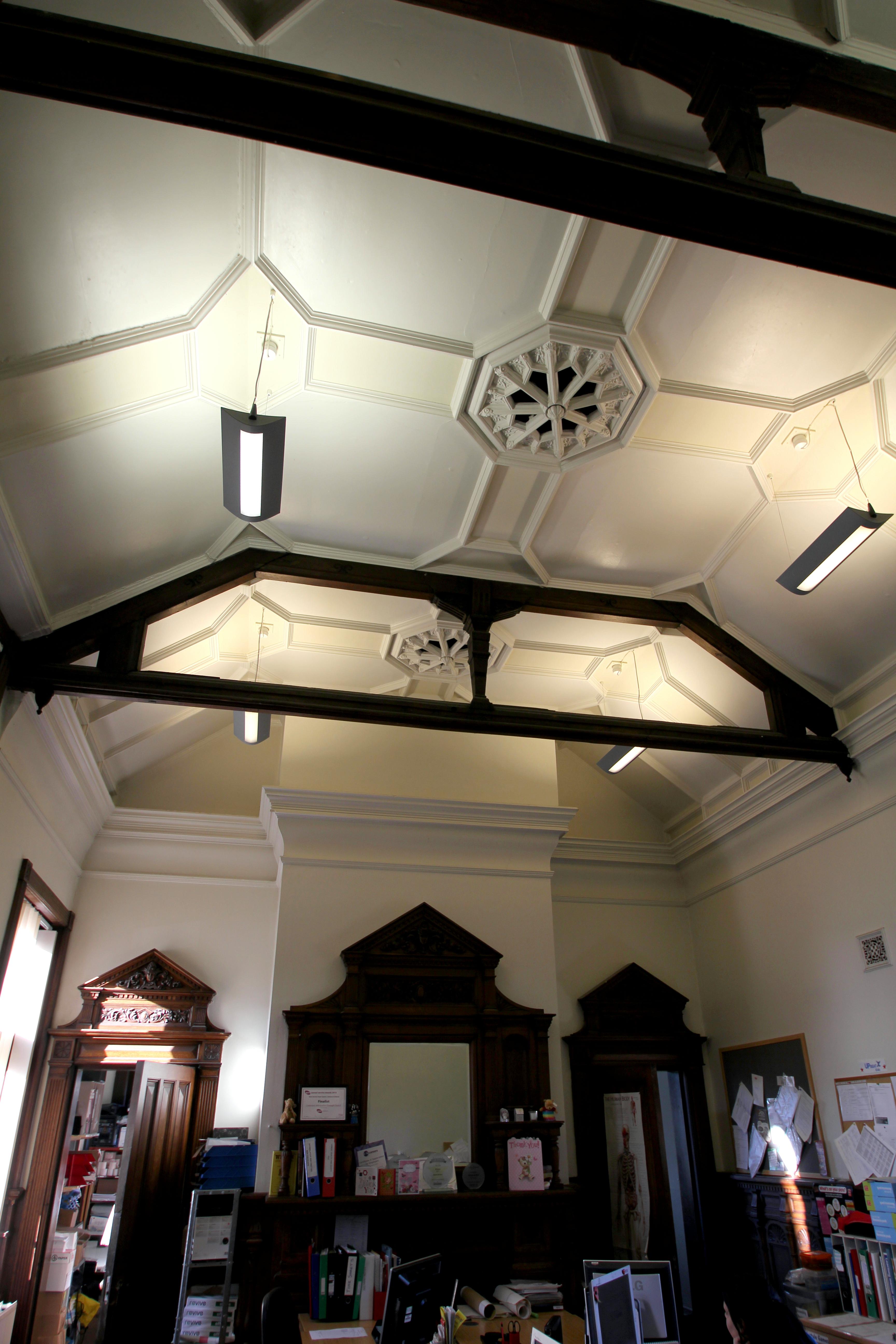 Interior of Spring Hall, now known as Spring Hall Mansions, off Huddersfield Road, Halifax, West Yorkshire. Showing music room ceiling and the end wall with carved oak fireplace and matching doors either side. The doors would be convenient for actor's entrances if the room were also used for plays. The floor is all the same level with no stage, however the roof beam could support curtains. This mansion was a rebuild of a 17th century house, and designed in 1871 by William Swinden Barber for Tom Holdsworth. It is owned by Kirklees Council and it houses Calderdale Register Office. Note: Most of the interior of the building is not accessible to the public. Each interior image by this uploader was taken with kind permission of Council staff.